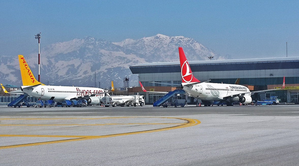 Van Ferit Melen Airport and background mount Erek